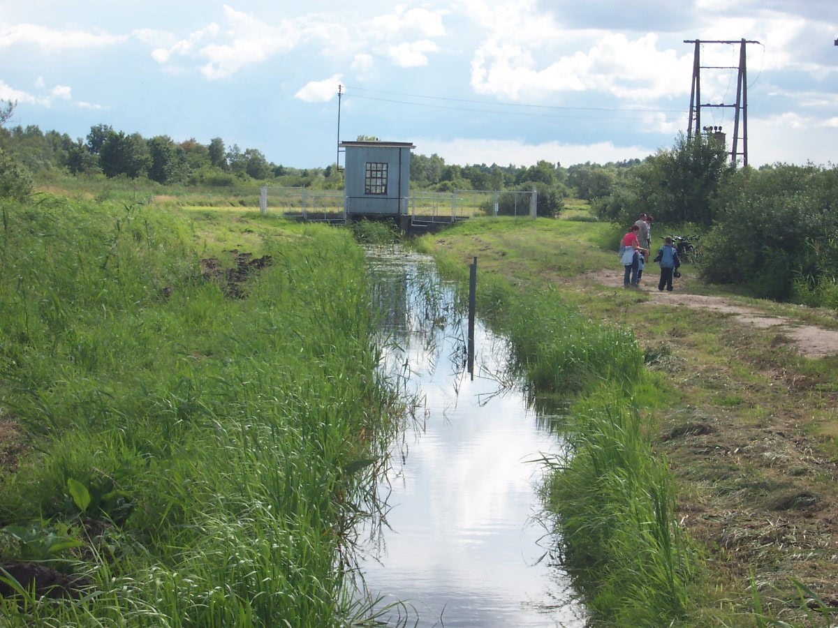 Drainage canal falling into Lake Łebsko, the largest lake in Słowiński National Park.